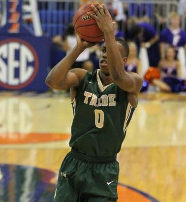 Florida Gators vs William&Mary Basketball 2014